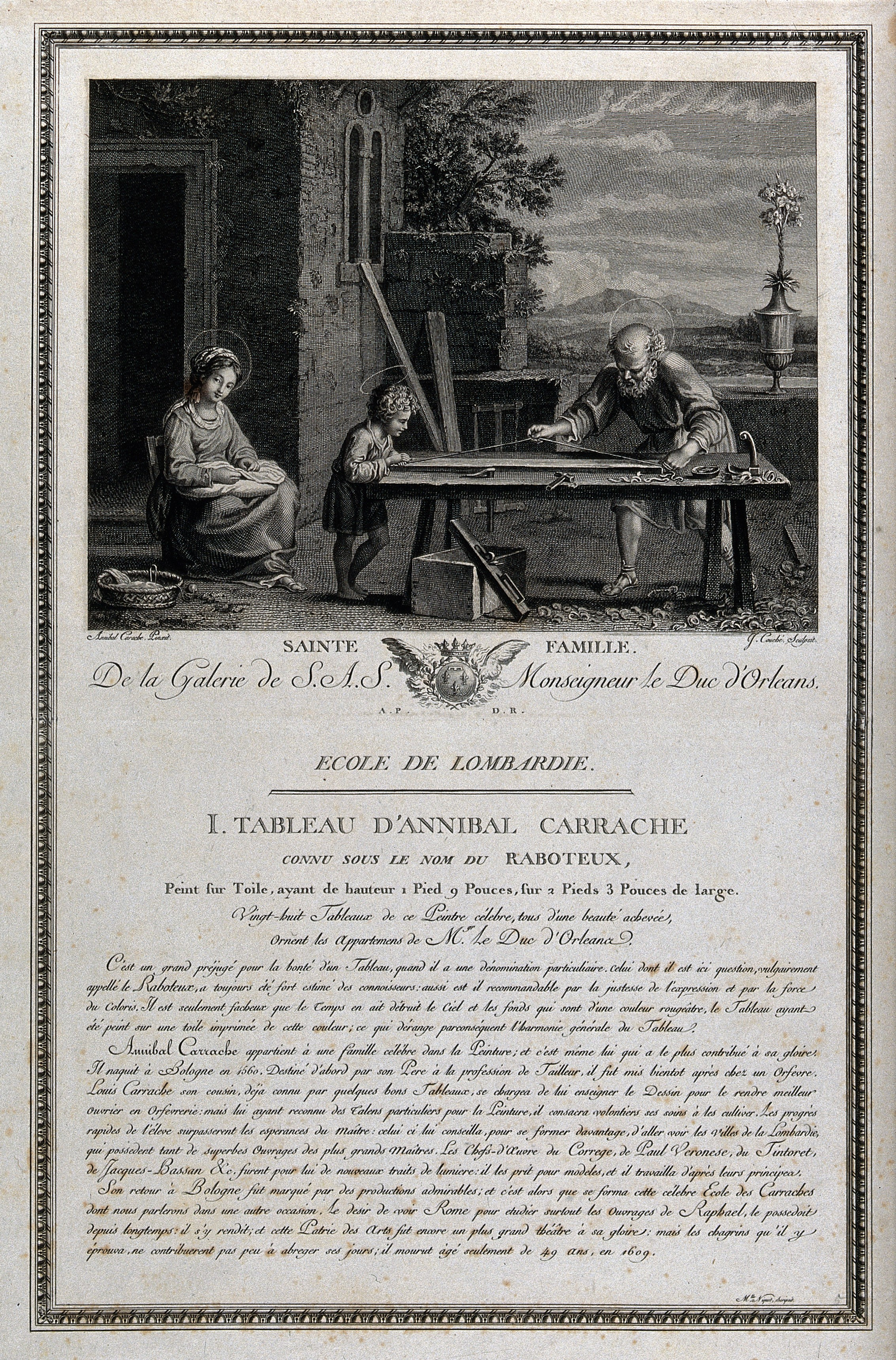 Saint Mary (the Blessed Virgin) and Saint Joseph with the Christ Child. Engraving by J. Couché after Annibale Carracci. Iconographic Collections